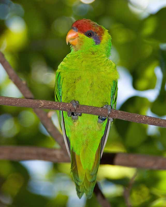 Iris Lorikeet (Psitteuteles iris) at San Diego Zoo, USA.